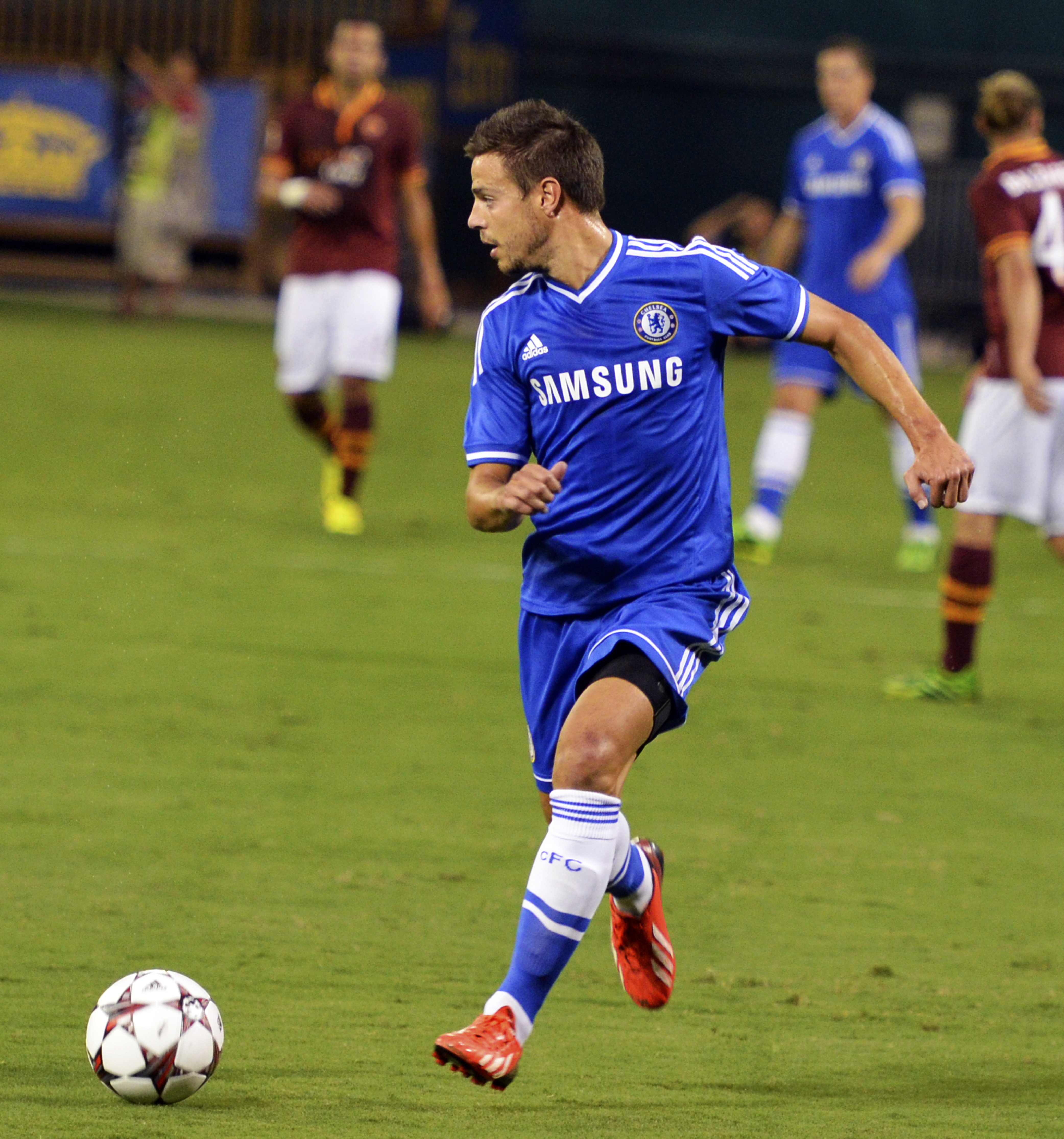 Césa Azpilicueta of Chelsea FC playing in a friendly against A.S. Roma. Game was played at Robert F. Kennedy Memorial Stadium in Washington DC on 10AUG2013.